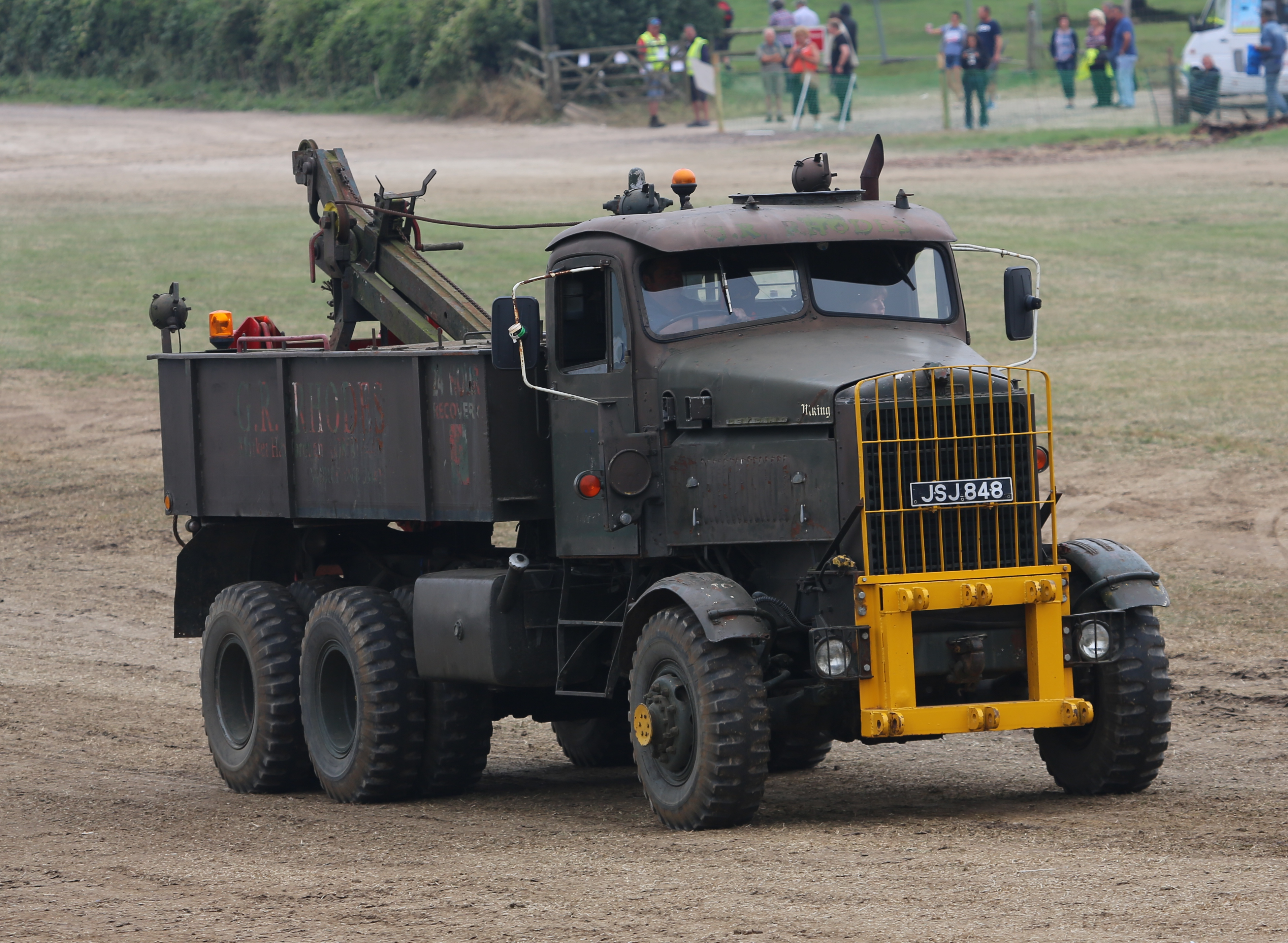 Photo of a 1954 Scammell Constructor